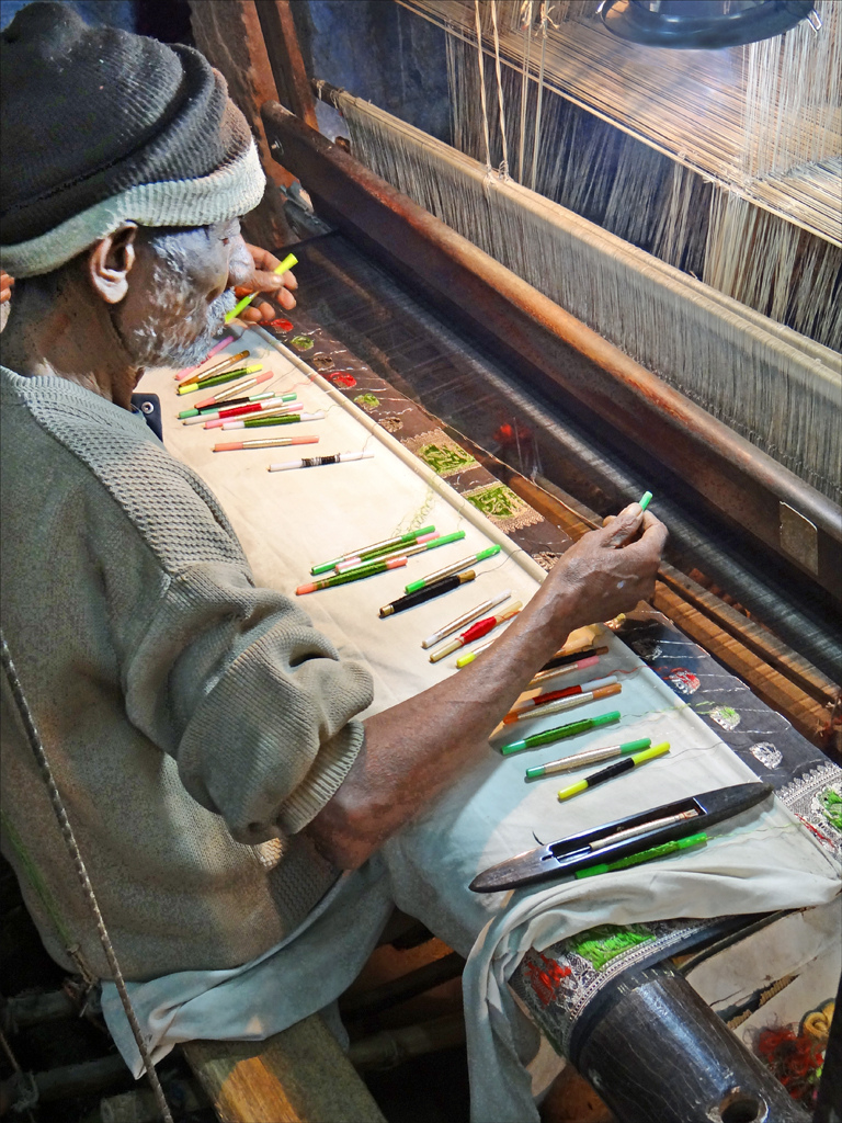 A worker weaving of silk brocade in a workshop in Varanasi